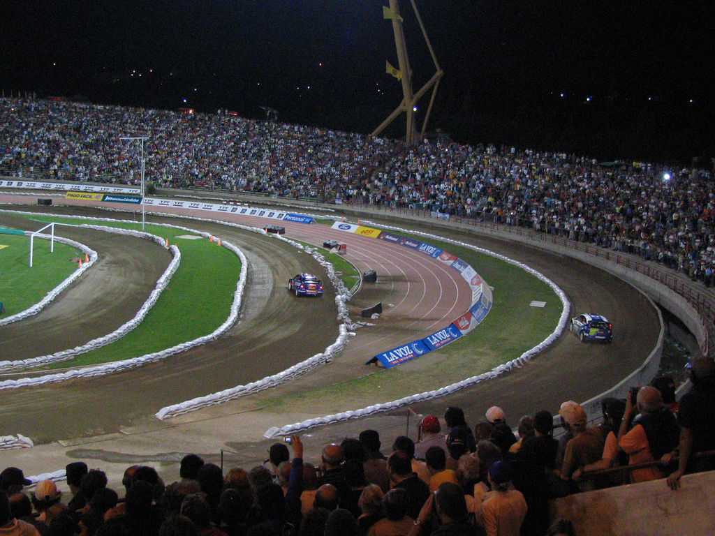 Marcus Grönholm (on the right) and Sébastien Loeb (on the left) compete head to head at a 2006 Rally Argentina superspecial.